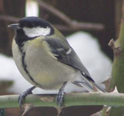 Great Tit. Taken in Vienna on 26 January 2004 by Hokanomono.